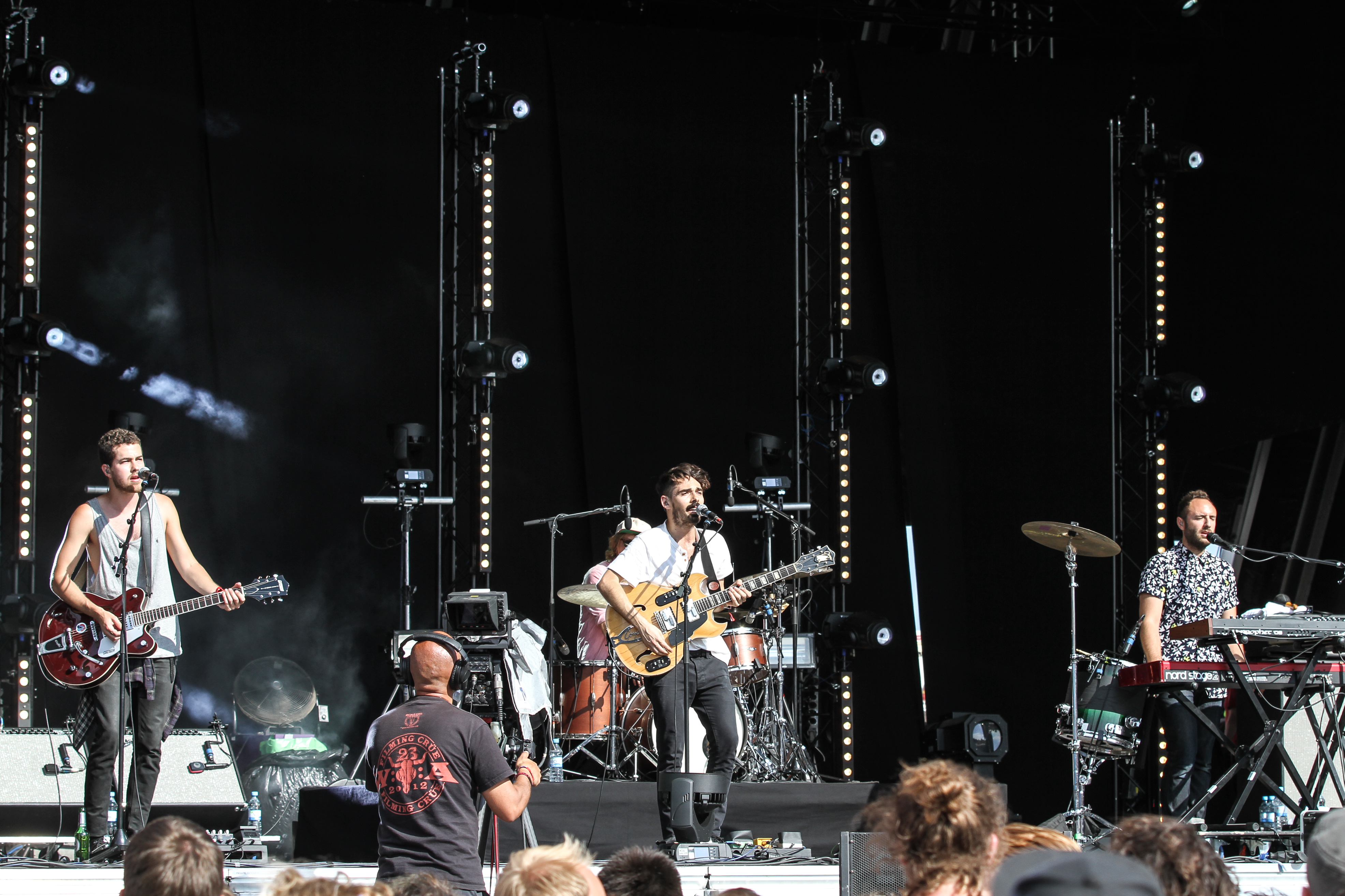 Local Natives performing at Melt! Festival 2013